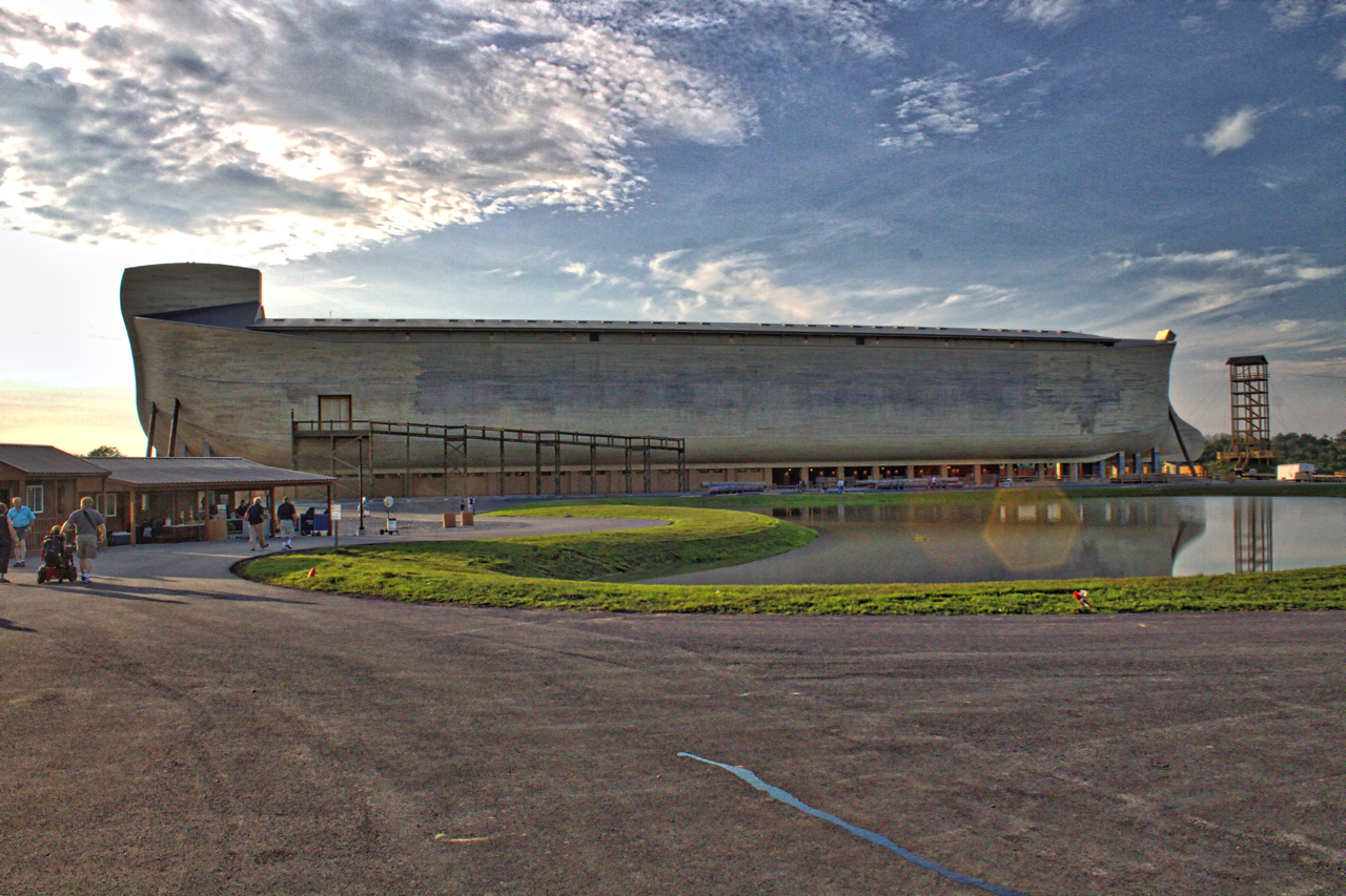 Noah's Ark - a life-sized reconstruction of Noah's Ark, built according to the dimensions given in the Bible. Williamstown, KY - July 2016